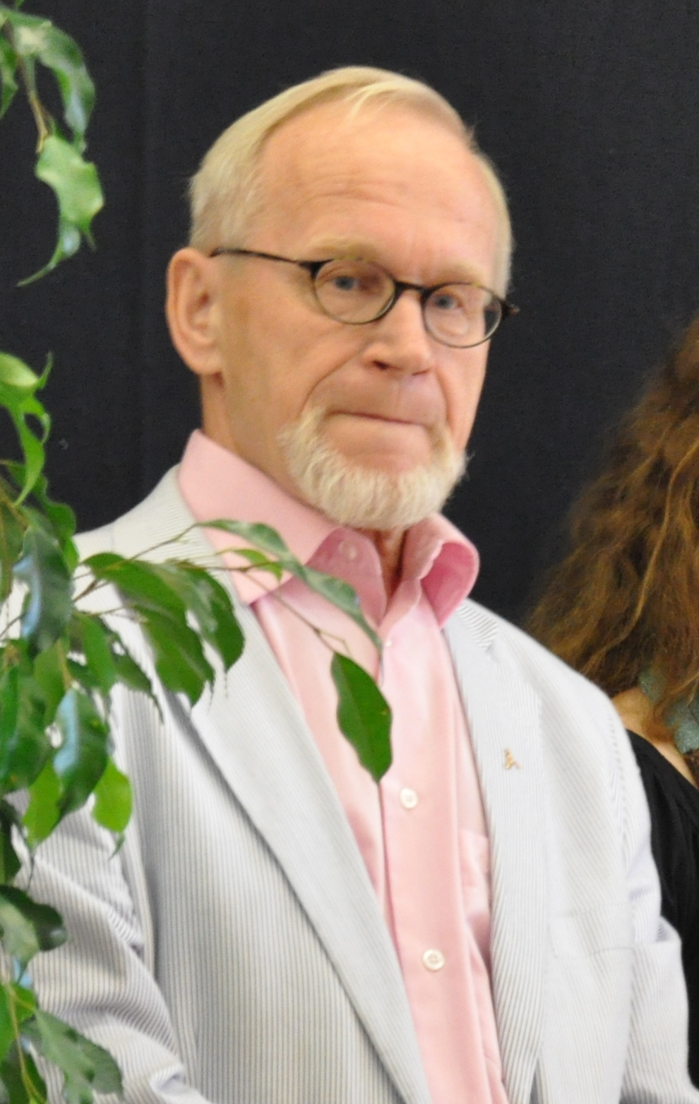 Former editor of the Finnish newspaper Turun Sanomat Aimo Massinen at the Turku Book Fair 2009.